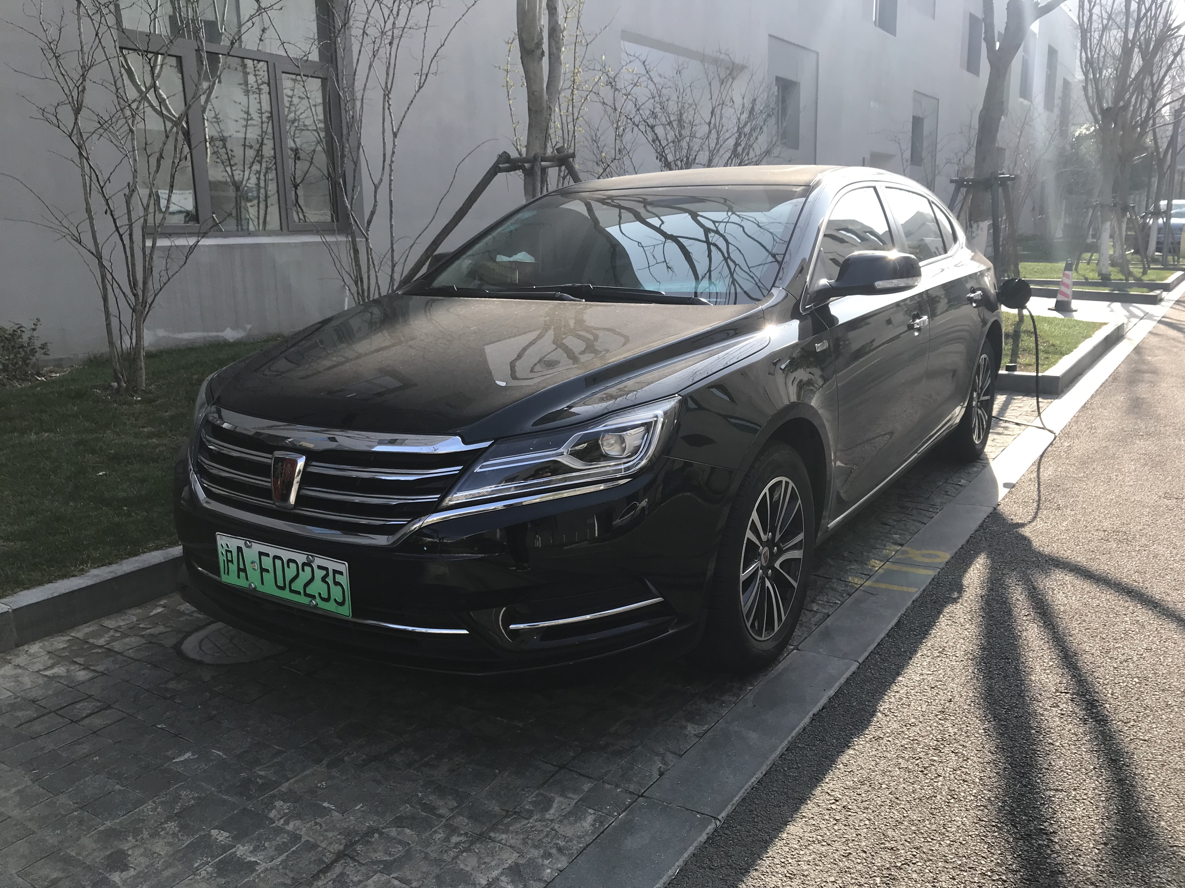 Roewe e950 front. Identical to the post facelift Roewe 950.